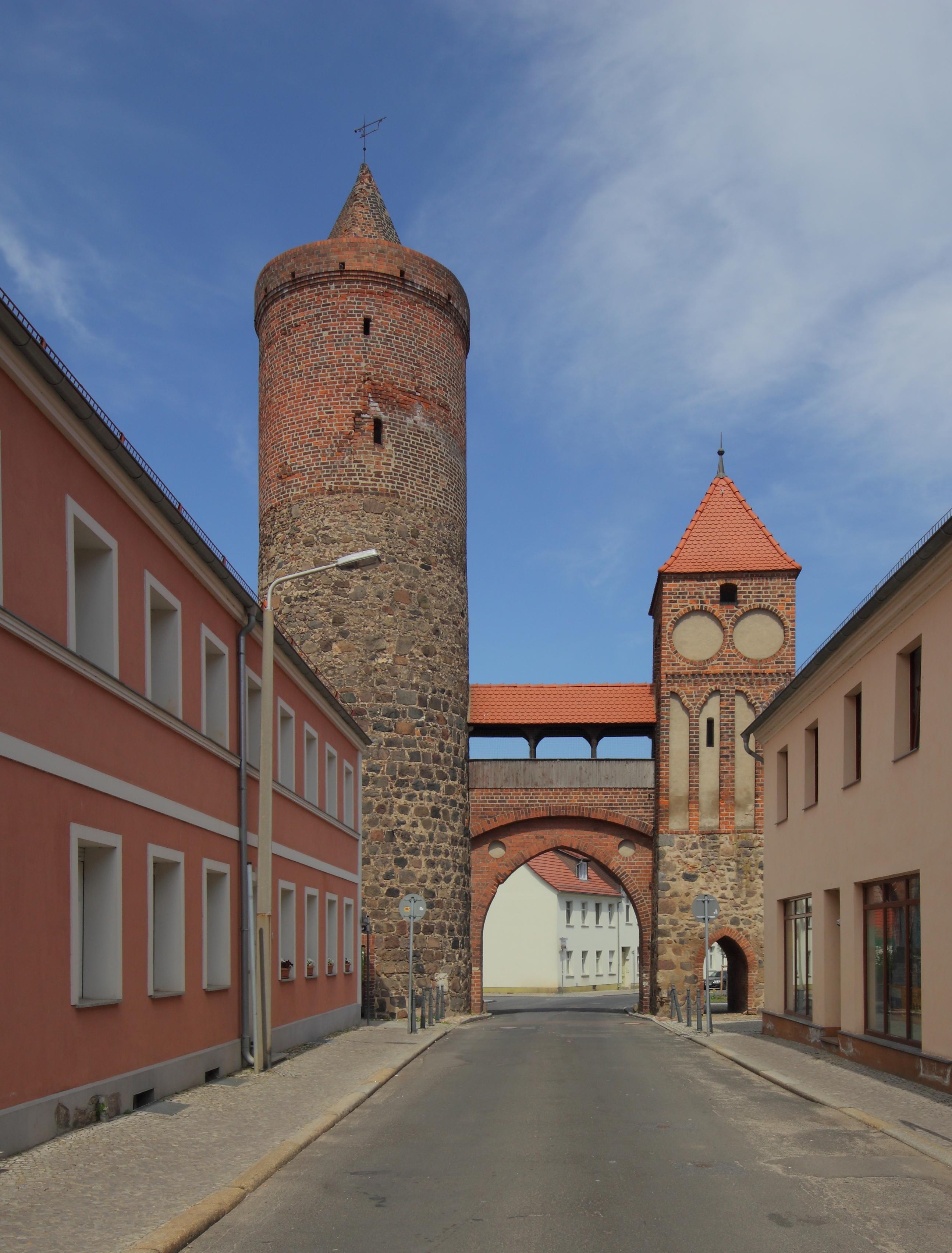 Former town gate in Jüterbog, Brandenburg, Germany